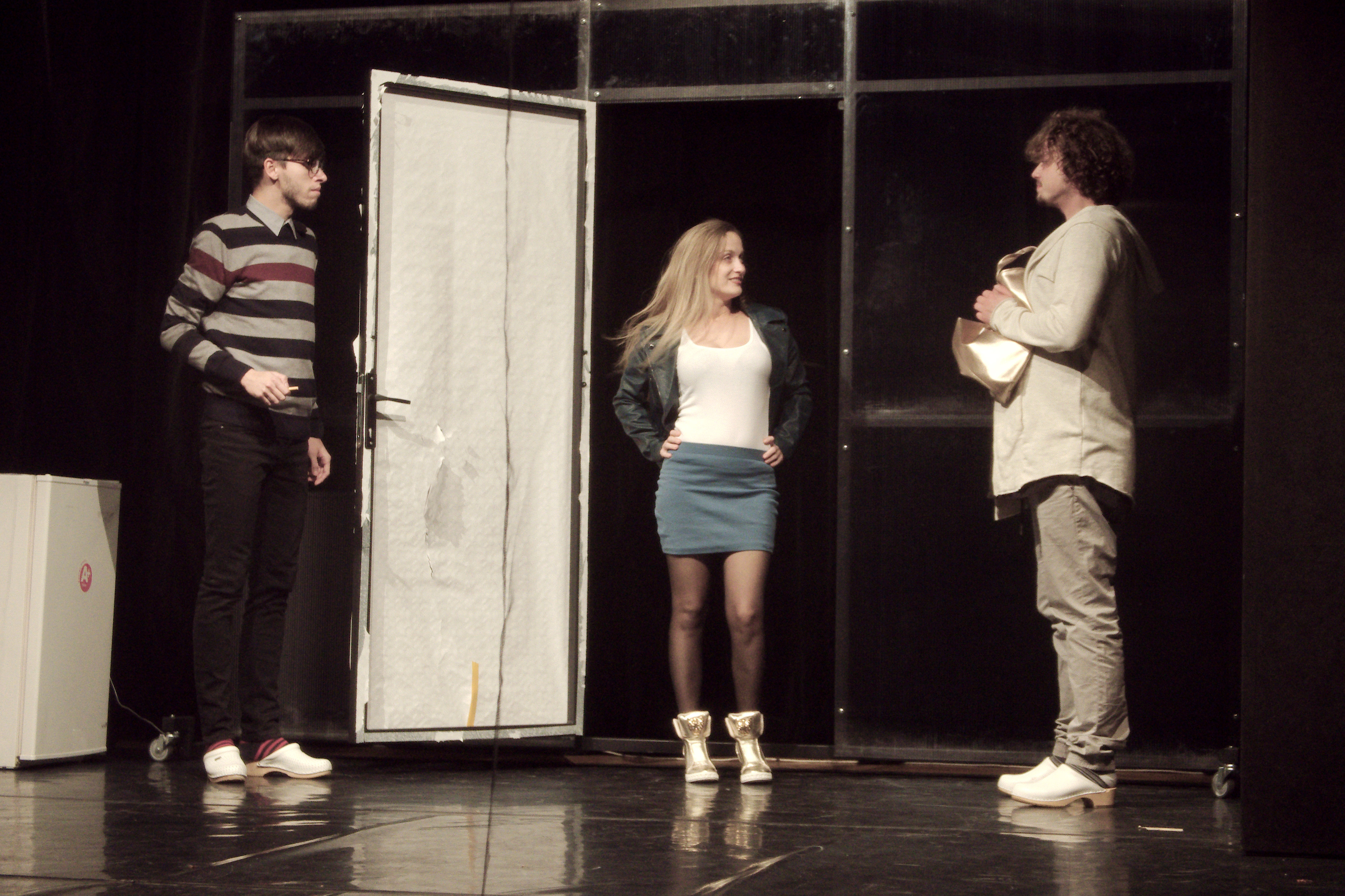 A photo from "Identikit", theatre performance written by Kuruc, Hvorecký, Scherhaufer; produced by theatre Nomantinels in Bratislava, Slovakia (2016). From left: Peter Tilajčík, Elena Kolek Spaskov, Jozef Štupák.